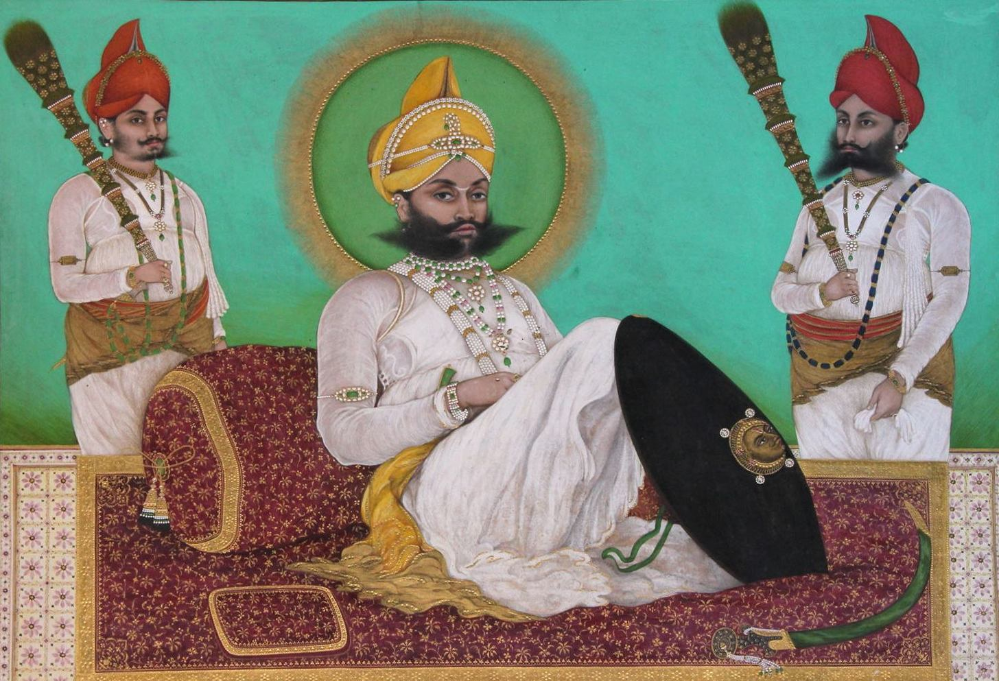 Tara. Portrait of Sarup Singh with attendants (after William Carpenter). Udaipur, 1851, City Palace Museum